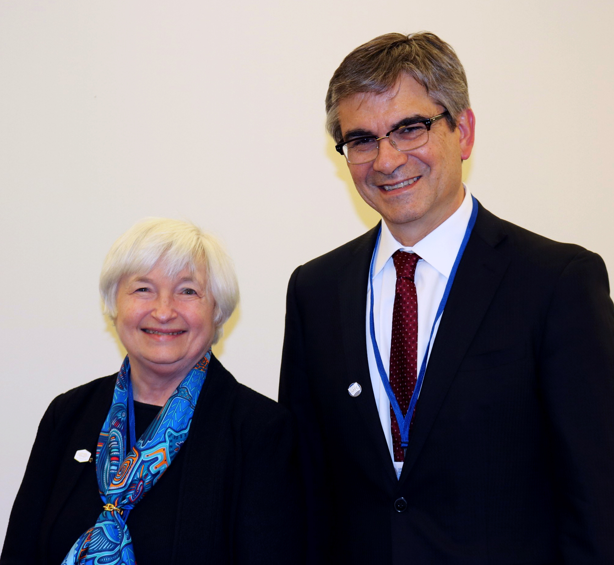 Janet Yellen, Chair of the Federal Reserve, with Mario Marcel, Governor of the Central Bank of Chile